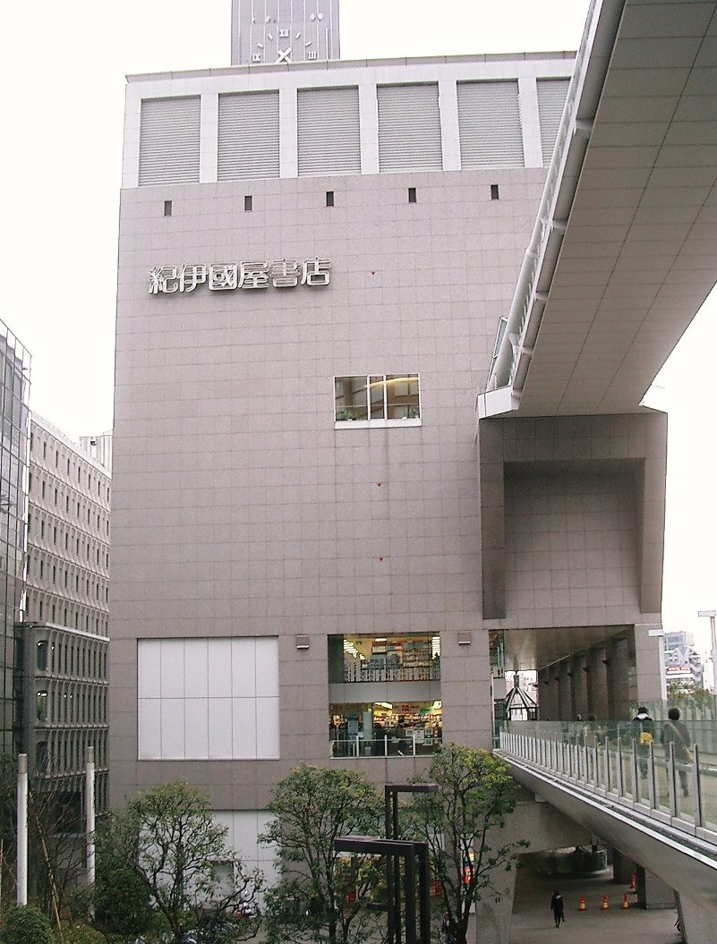 Books Kinokuniya Shinjuku Minami store, administratively located in Shibuya ward.